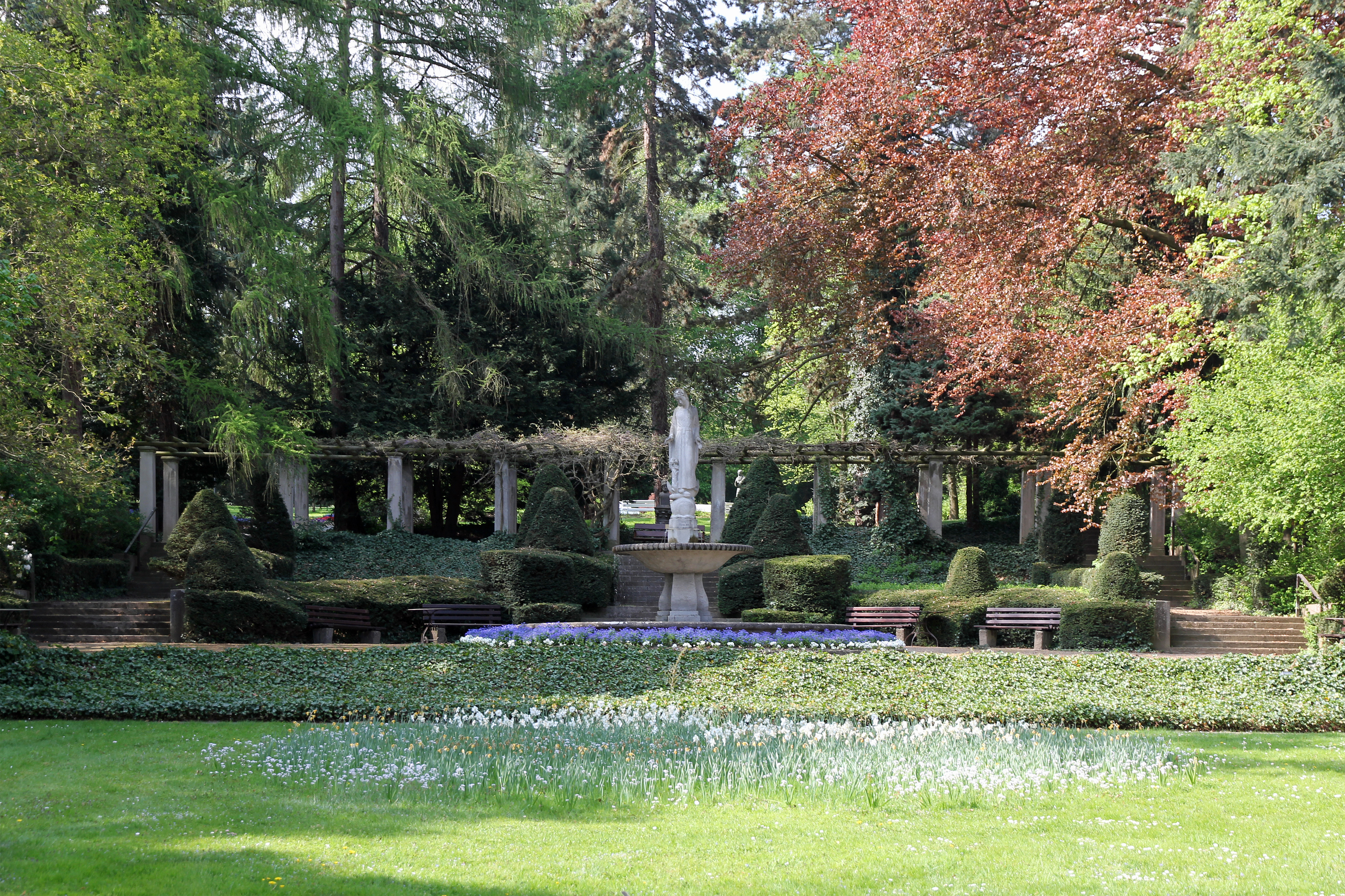 Weidtman Castle in Koblenz